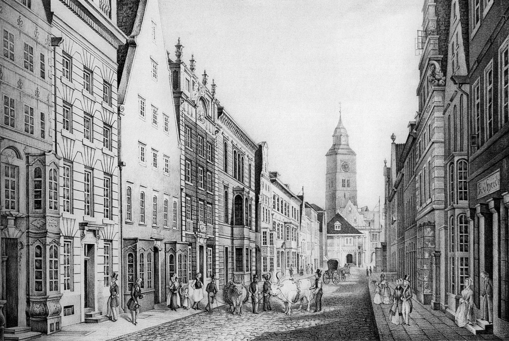 The Obernstraße street in Bremen (Germany) in 1844, looking towards the Marktplatz (the market square). In the background a tower of the Bremer Dom (the Bremen cathedral).